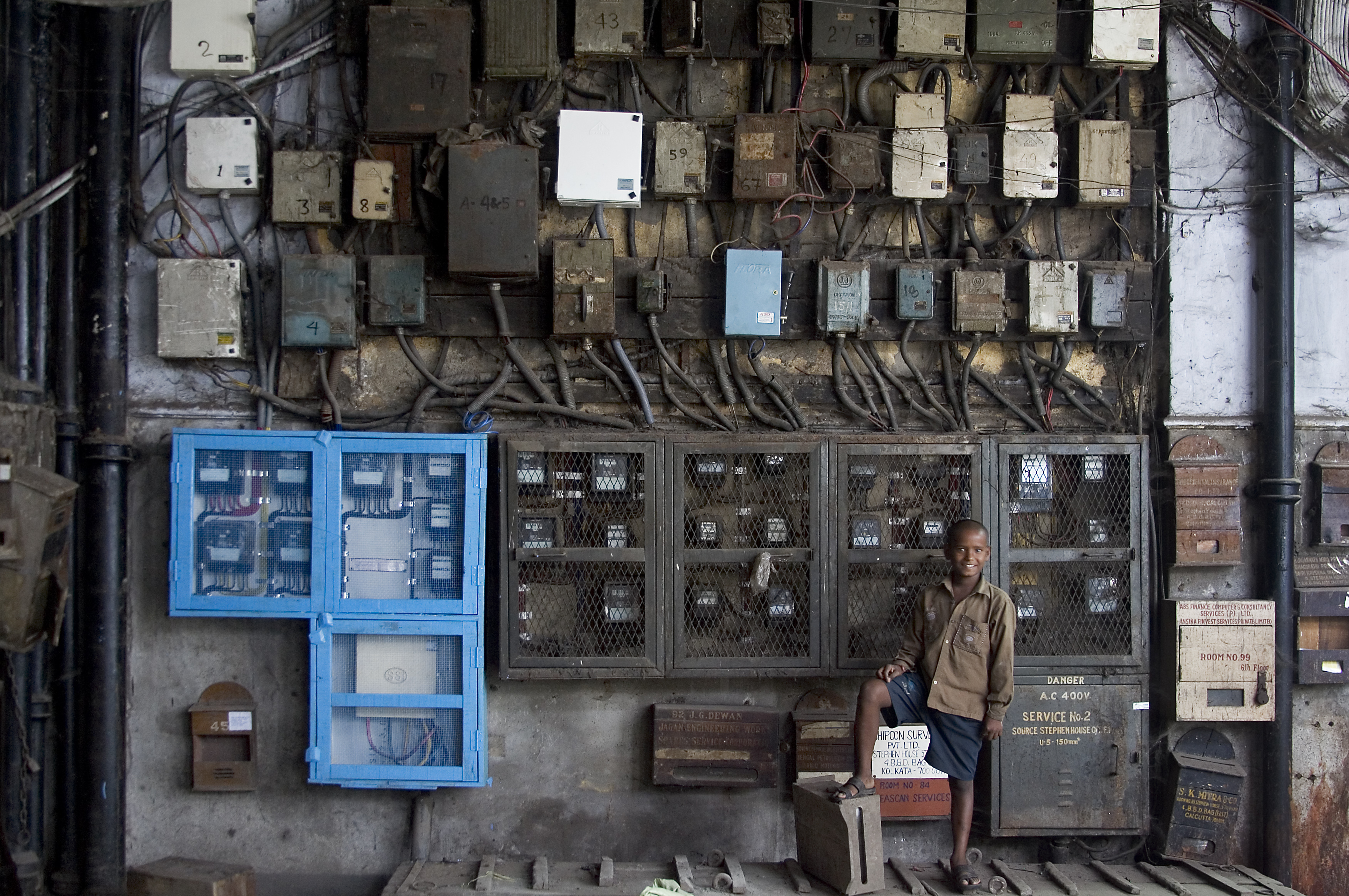 Electric circuits in a bulding Calcutta Kolkata India. A child stands by.